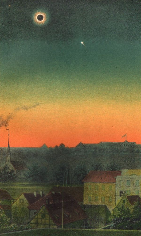 Total eclipse of the Sun, Gdańsk, 28th July 1851